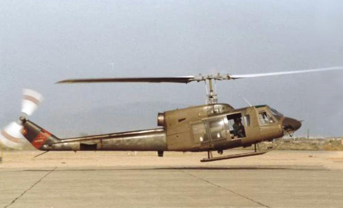 Bell 214 of the Royal Omanian Air Force in 1982